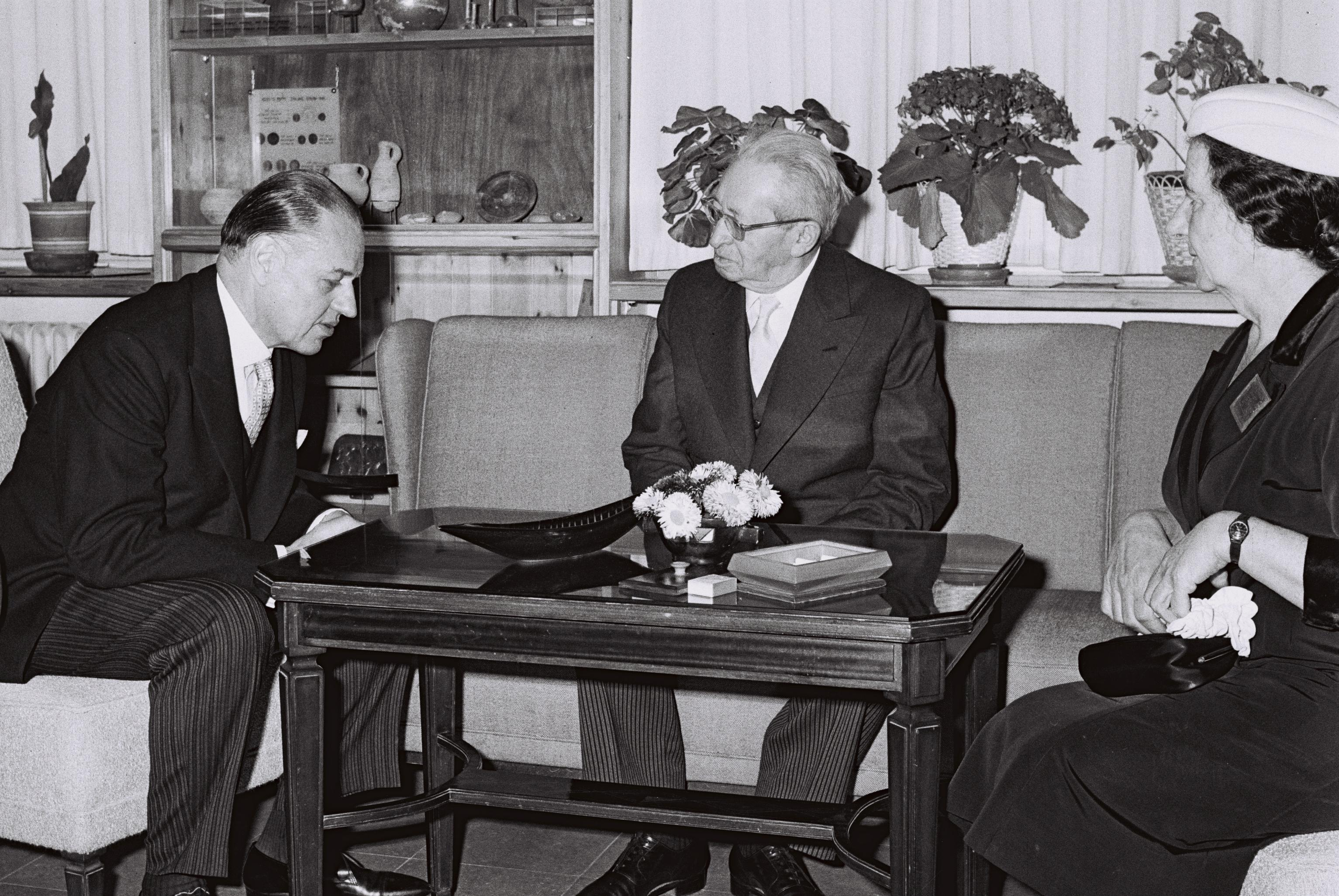 NEW SWEDISH AB. MR. HUGO DE TAMM WITH PRES. YITZHAK BEN ZVI AND FOREIGN MIN. GOLDA MEIR, AFTER PRESENTING HIS CREDENTIALS AT BEIT HANASSI IN JERUSALEM.